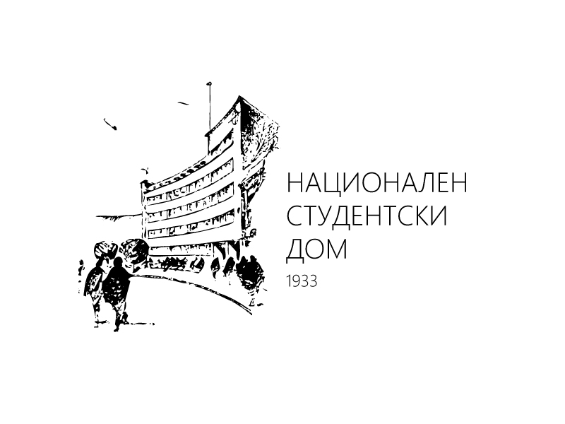 The logo of the National Student House, est. 1933, a governmental institution, part of the executive branch of the Bulgarian government.